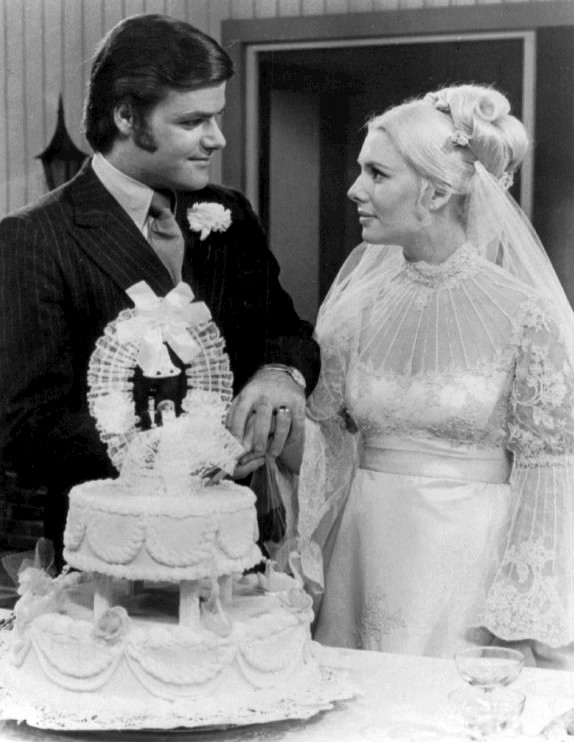 Photo of George Reinholt (Steven Frame) and Jacqueline Courtney (Alice Matthews)' wedding on the daytime drama Another World.